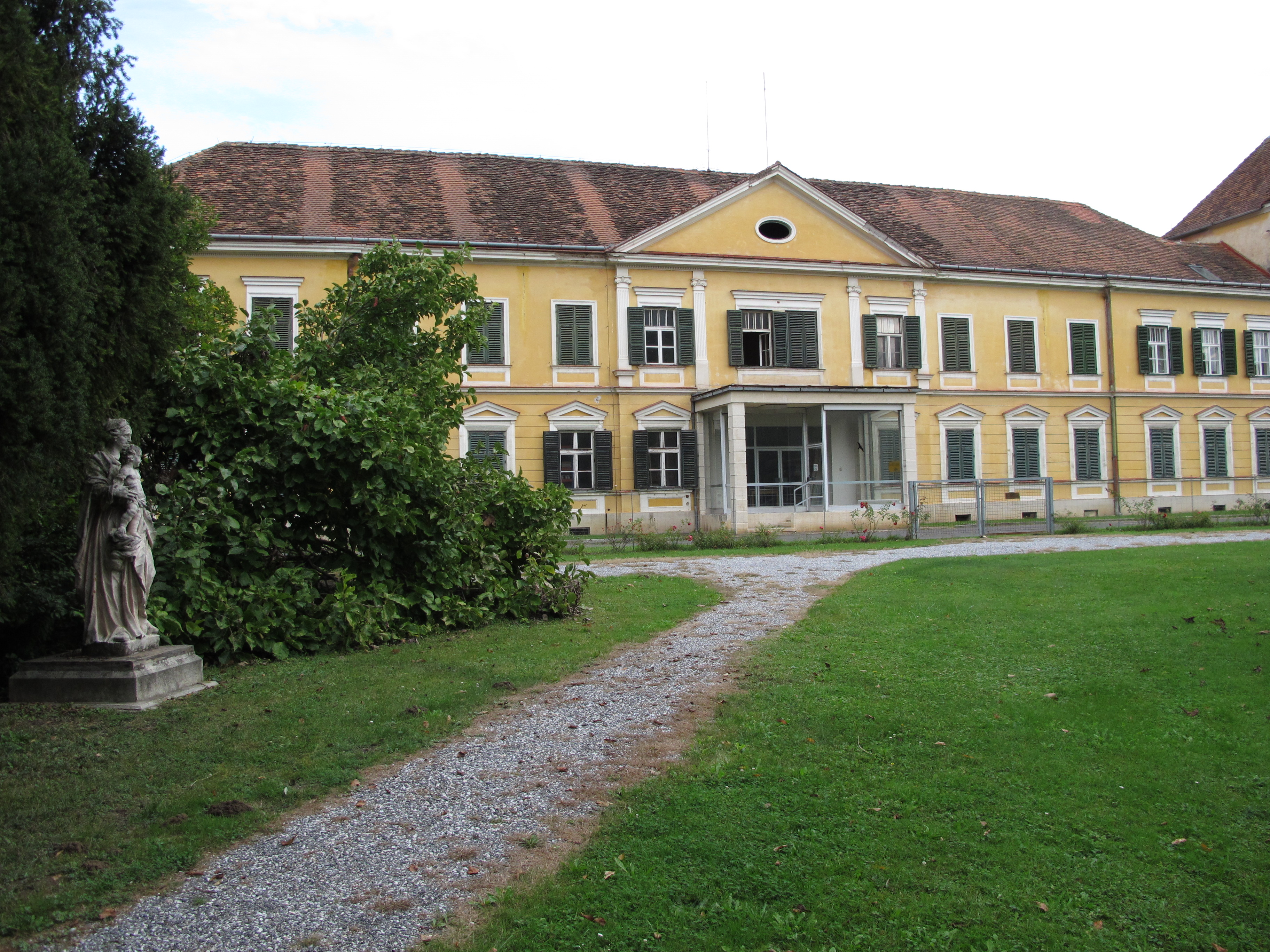 Ehemaliges Schloß in Rudersdorf